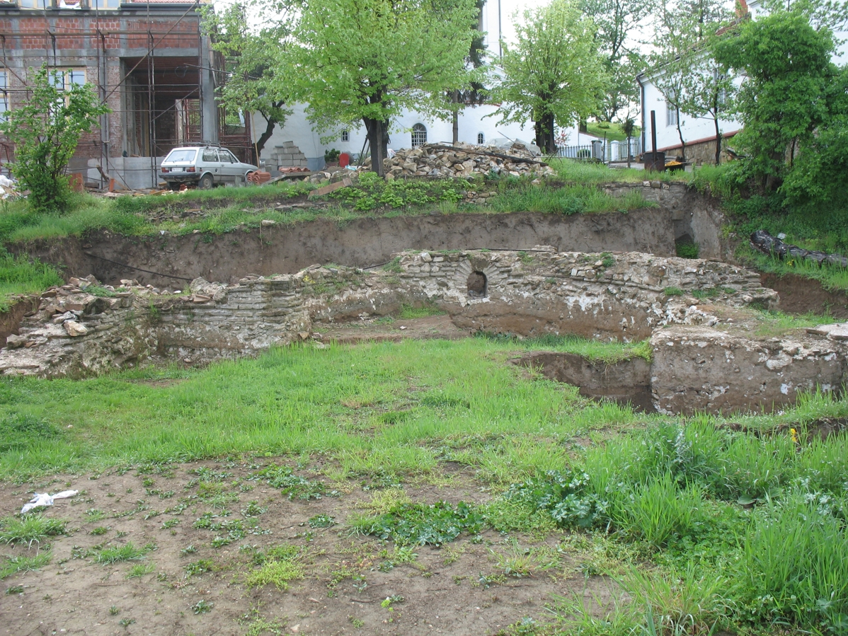 Remains of roman baths of ancient Hameum in center of modern Prokuplje, Serbia.